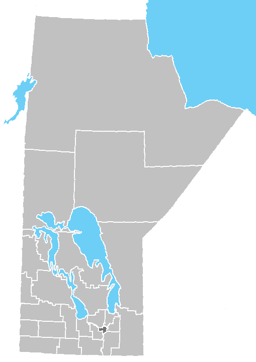 Regions of Manitoba